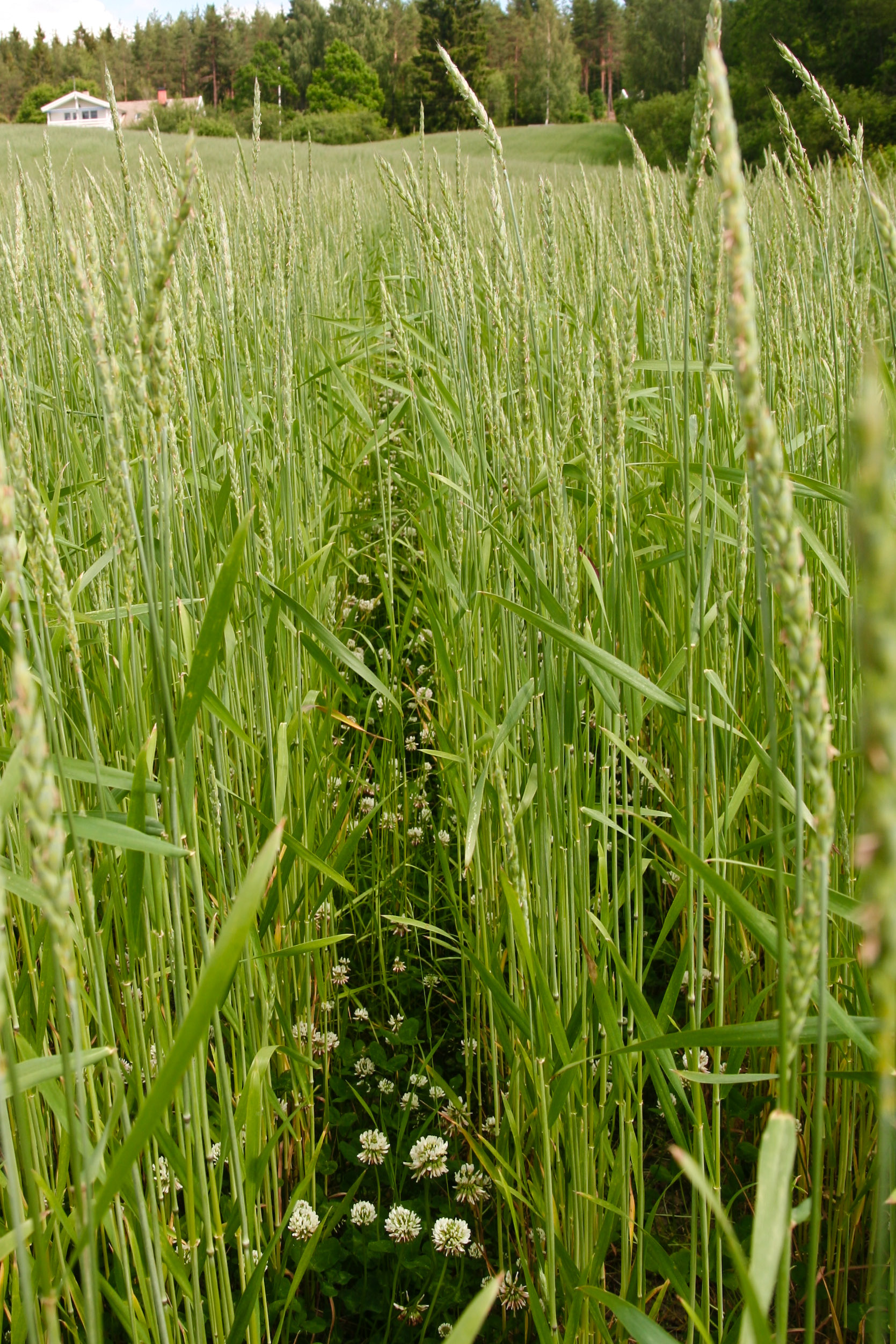 Green spelt wheat with white clover Norsk (bokmål): Økologisk spelt med underkultur av hvirkløver. Eidsvoll, Norway